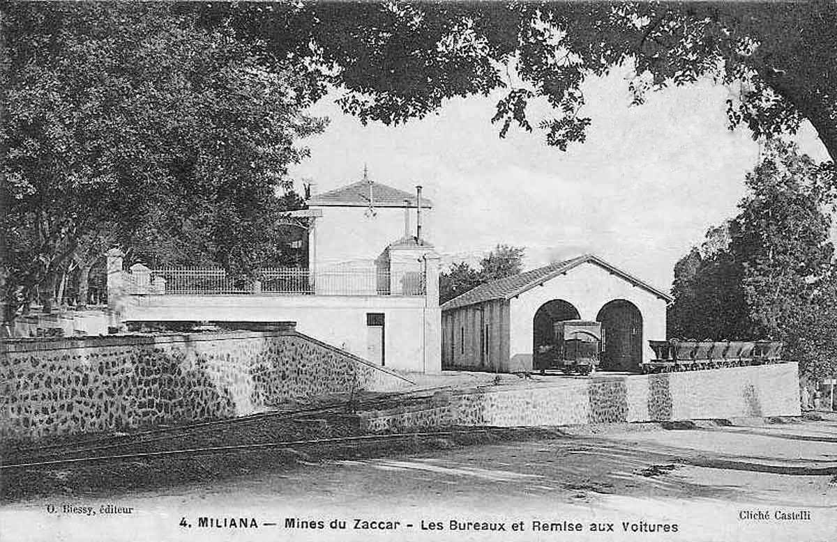 Miliana Mine Tramway